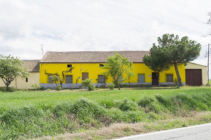 Casa amarilla